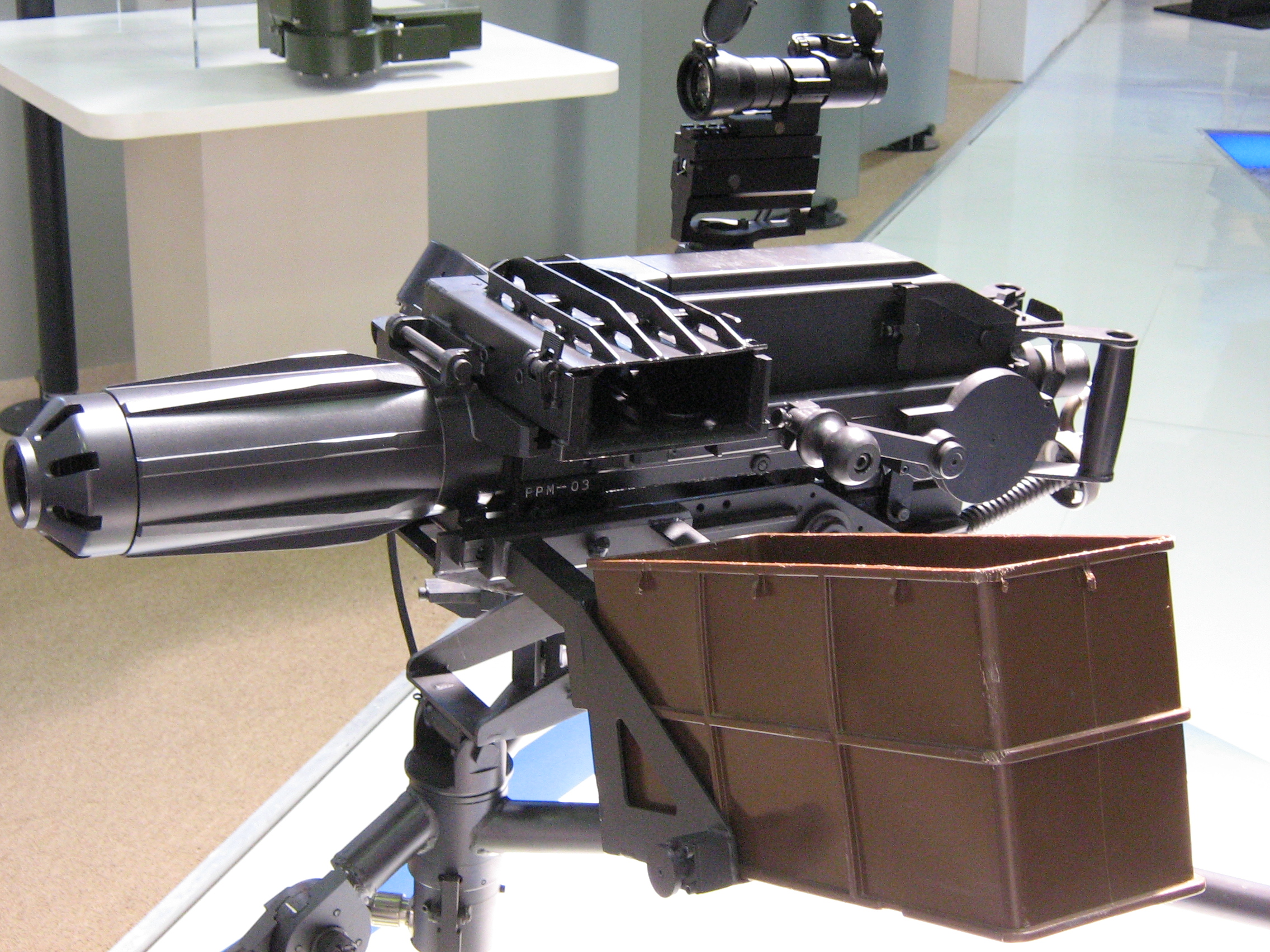 Vektor Y3 AGL automatic 40 mm grenade launcher, displayed at Africa Aerospace & Defence expo, 2006.